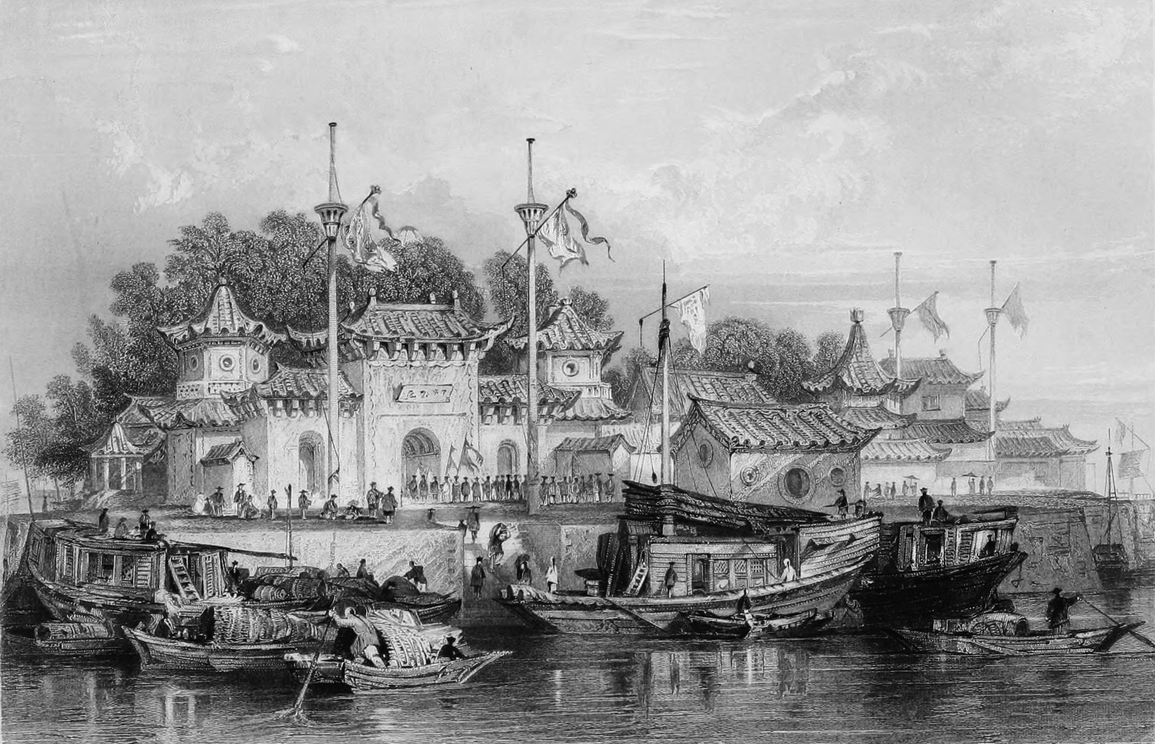 "Military station near the city of Chokien". From the text of the book (vol I, pp. 53 sq.), "Chokien" or "Cho-kien" was located on the "Pei-ho"; it can be surmised that this is the same place that appears in other 19th-century accounts and maps as "Ho-kien[-fou]", i.e. Hejian